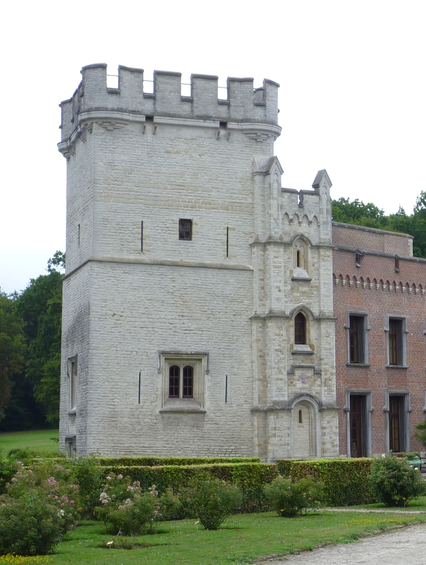 The Donjon tower of Bouchout Castle was built at about 1300 by Daniel van Bouchout. This watchtower of 20 meters in heigth and walls of 1 meter thick, guarded the 10 meters long drawbridge, which spanned 5 canals.